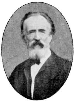 Image scanned from the book "Svenskt Porträttgalleri XX - Arkitekter, Bildhuggare, Målare m.fl. " ("Swedish Portrait Gallery XX - Architects, Sculptors, Painters, ") published 1901